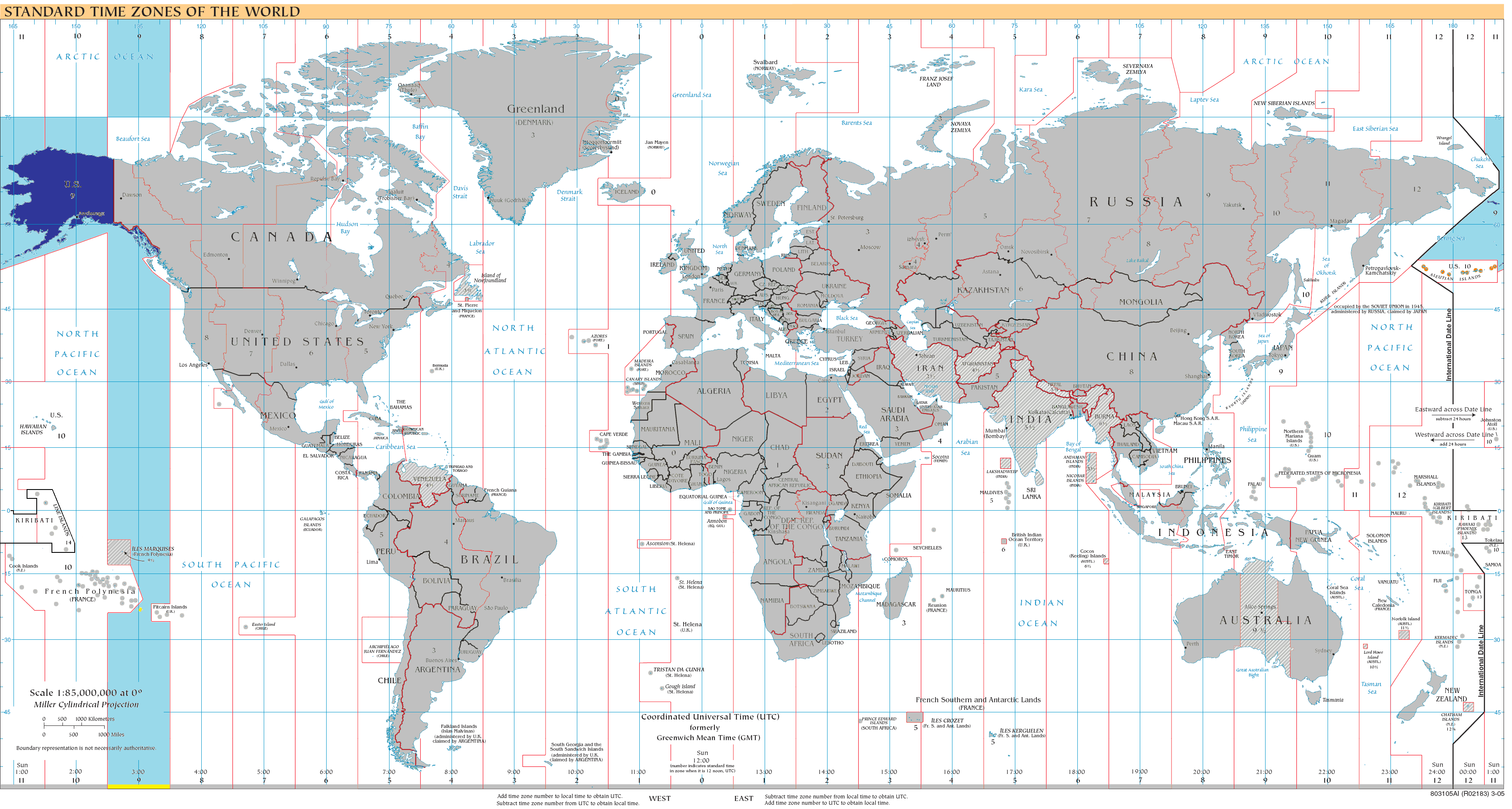 World map of time zones as of 2008, on the Miller Cylindrical Projection and with highlighted UTC-9 zone. Dark Blue - UTC-9 during Northern Winter / Southern Summer Orange - UTC-9 during Northern Summer / Southern Winter Yellow - UTC-9 all year round Light Blue - UTC-9 sea areas